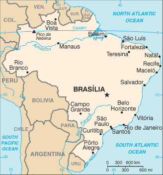 Map of Brazil